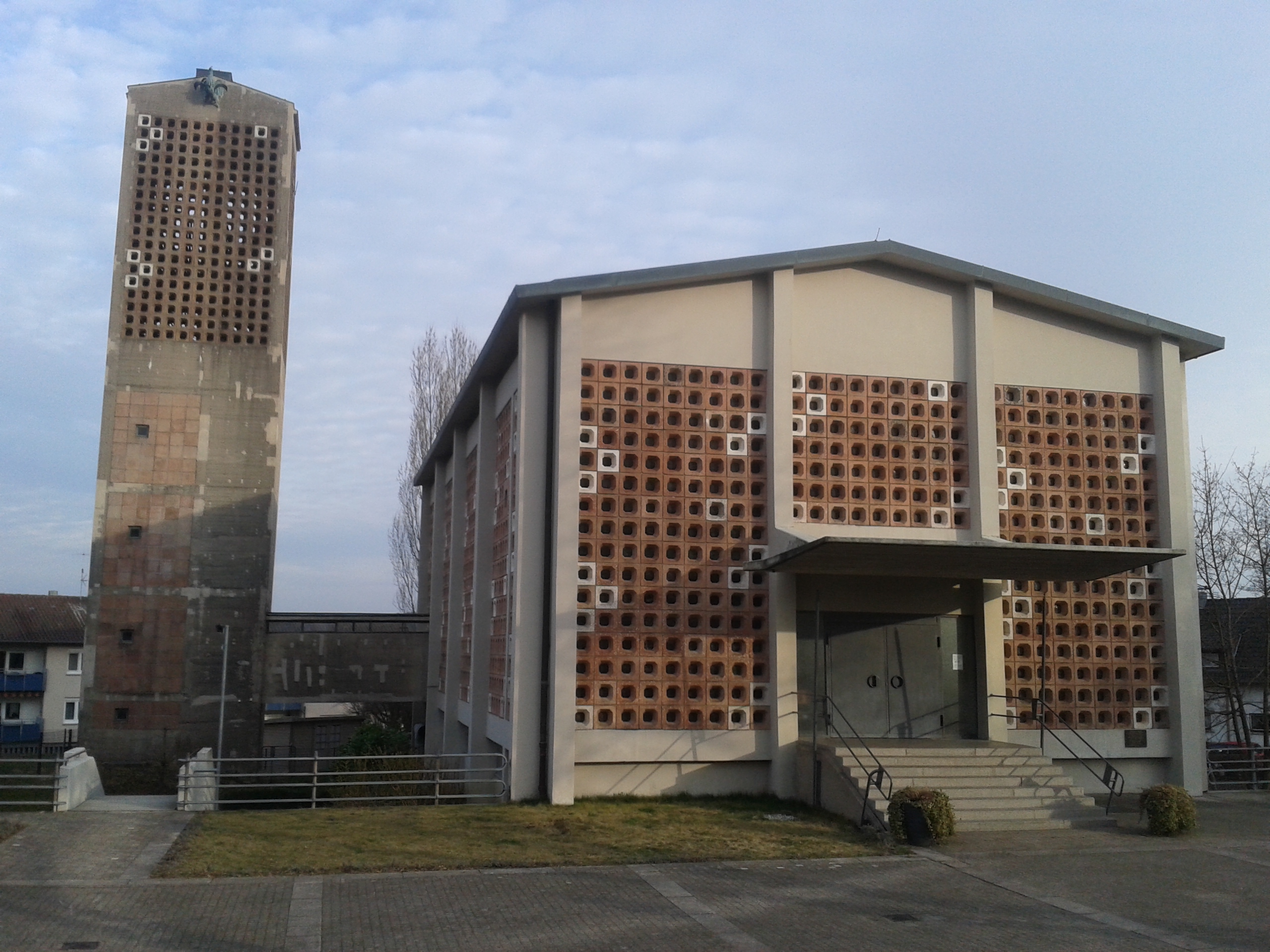 Eierman church Pforzheim entrance